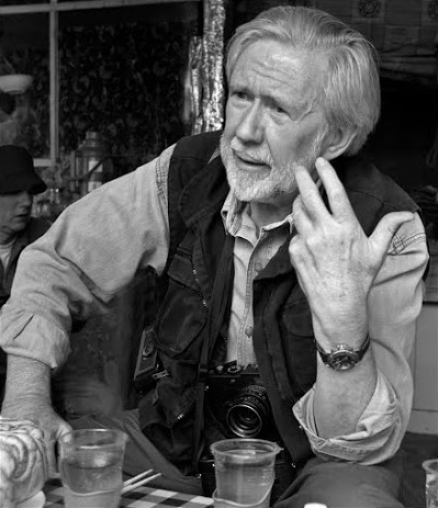 Portrait of Ian Berry